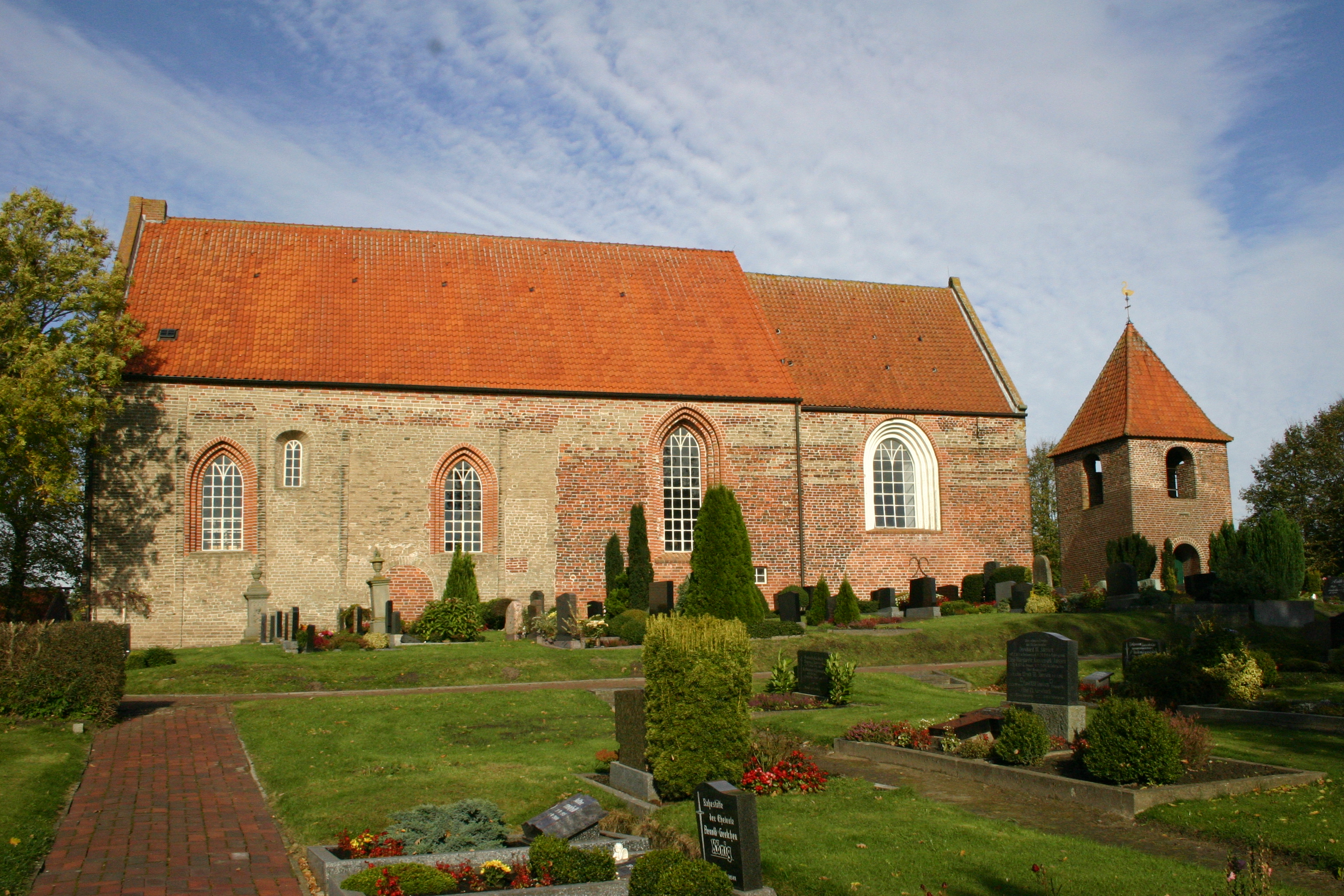 Church St. Giles in Stedesdorf (district of Wittmund, East Frisia, Germany)